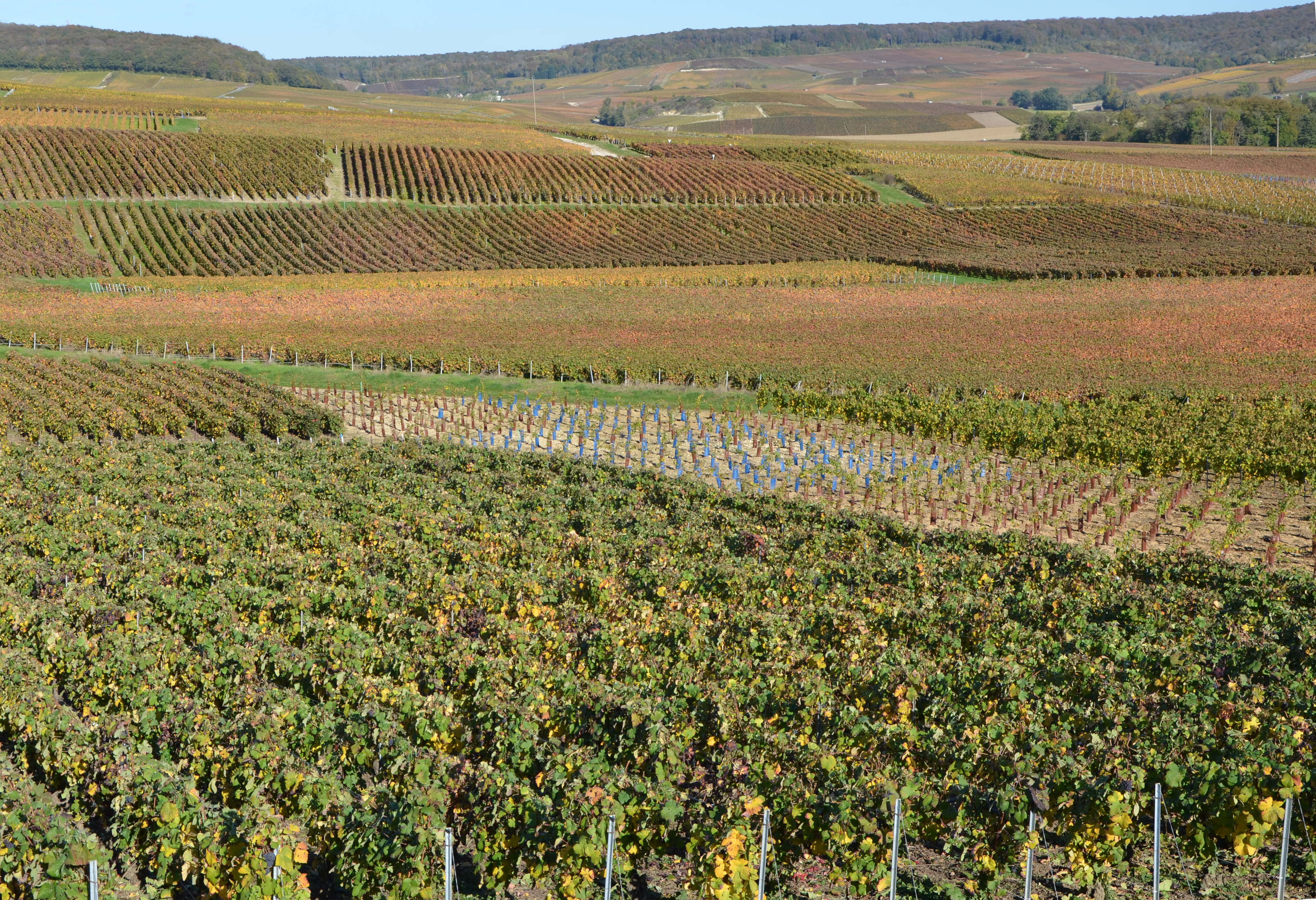 Champagne vineyards near Fleury-la-Rivière in the "montagne de Reims", Marne, Champagne-Ardennes, France